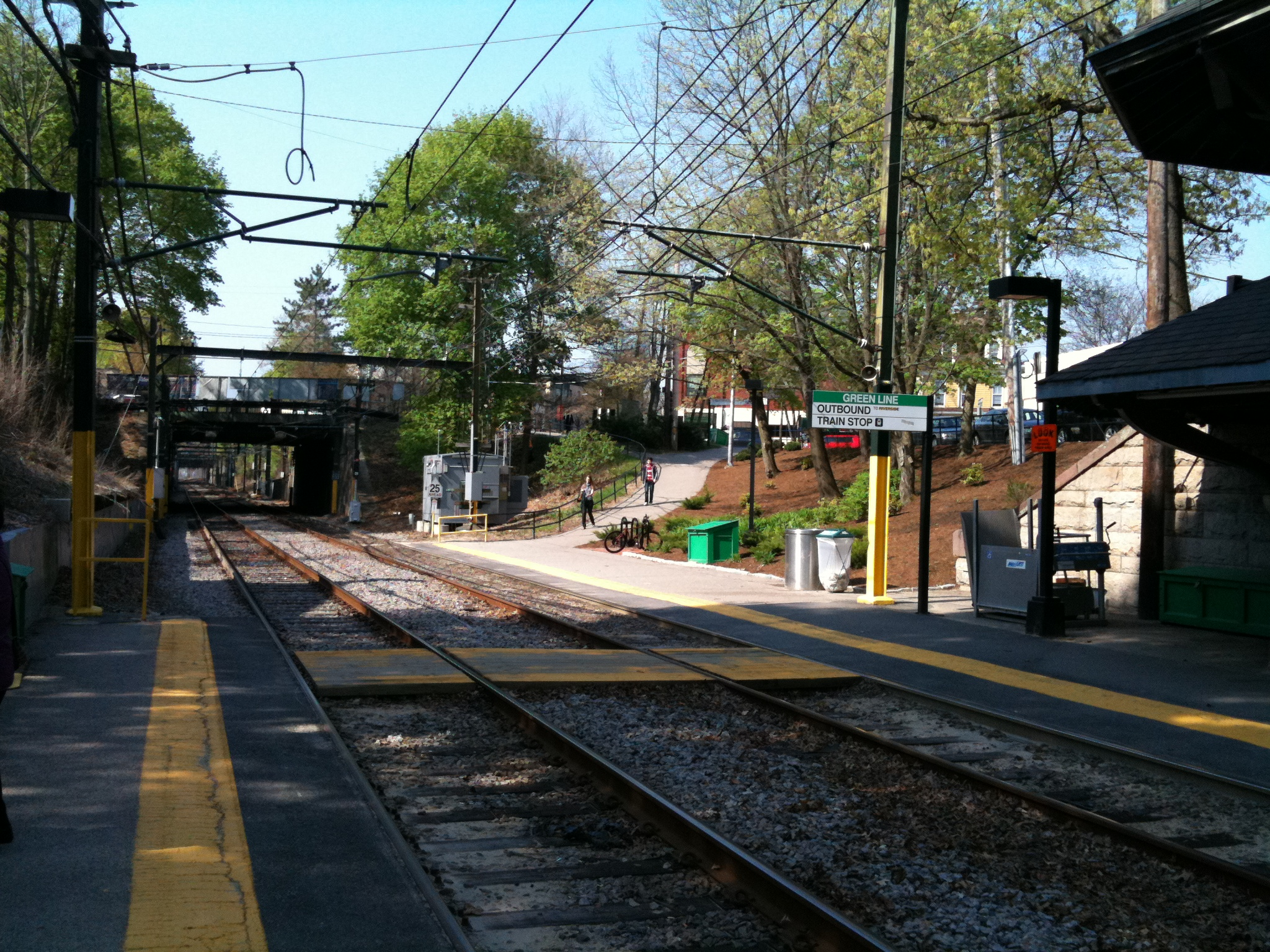 Newton Highlands station on the MBTA Green Line D Branch, looking west from inbound platform, showing ramp to Walnut Street in Newton, MA.